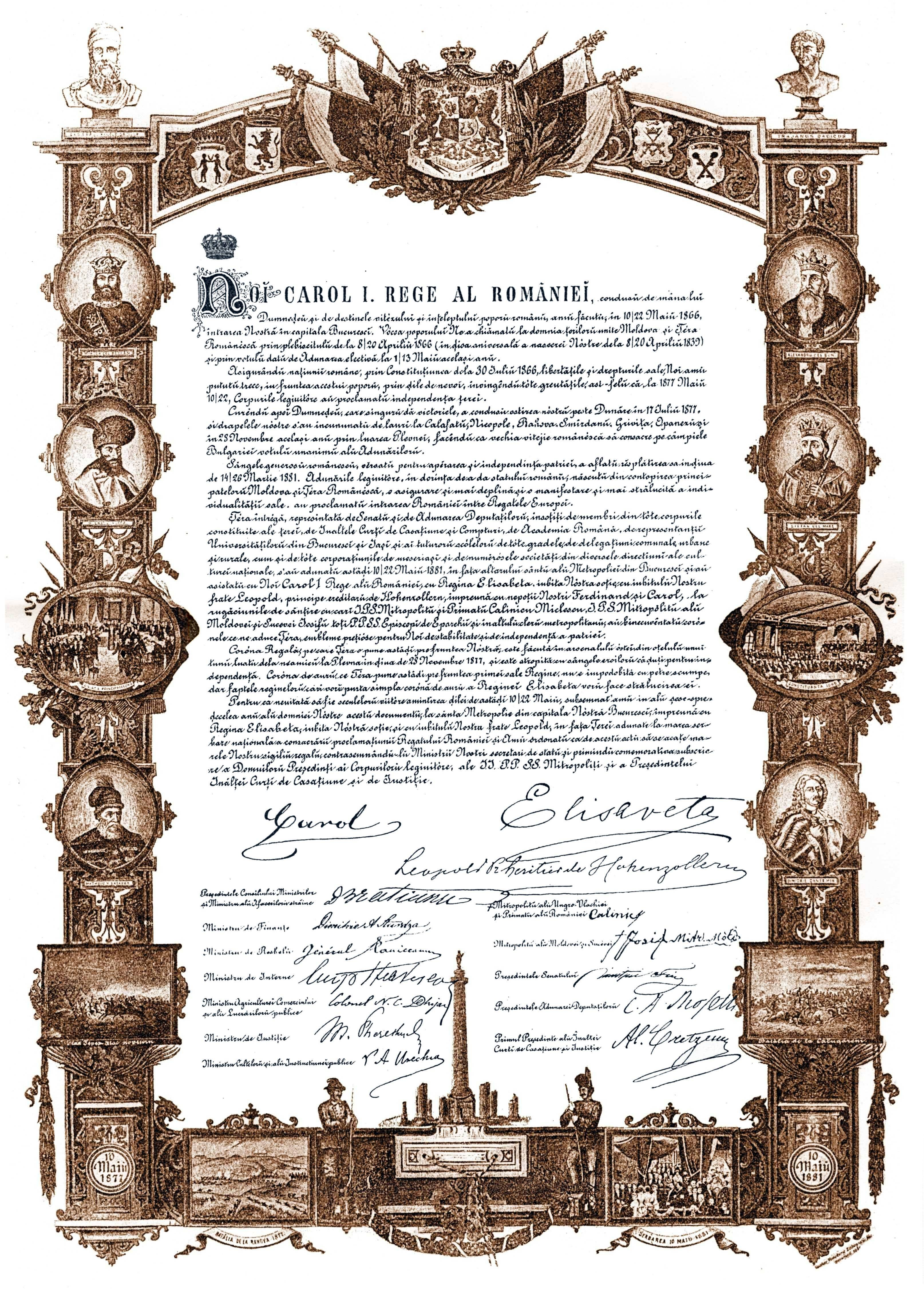 The Act of Proclamation of Romanian Kingdom, signed by King Carol, and Queen Elisaveta.